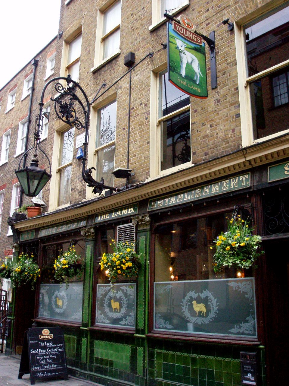 Excellent pub on Lamb's Conduit St, has a room upstairs for functions, tiny little beer garden, friendly staff and period fittings. (View of interior.) (View of door mosaic.) (Photo of goat's cheese salad.) Address: 94 Lambs Conduit Street. Owner: Young's (website). Links: Randomness Guide to London Fancyapint Beer in the Evening Qype Dead Pubs (history)